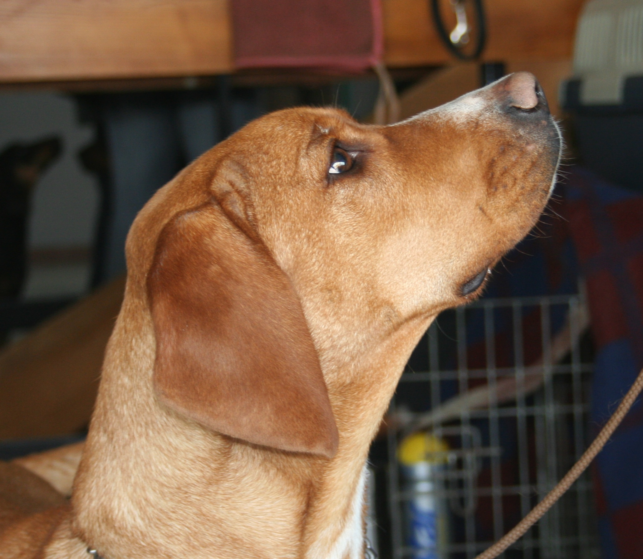 Polish Hunting Dog during the international dogs show in Katowice, Poland